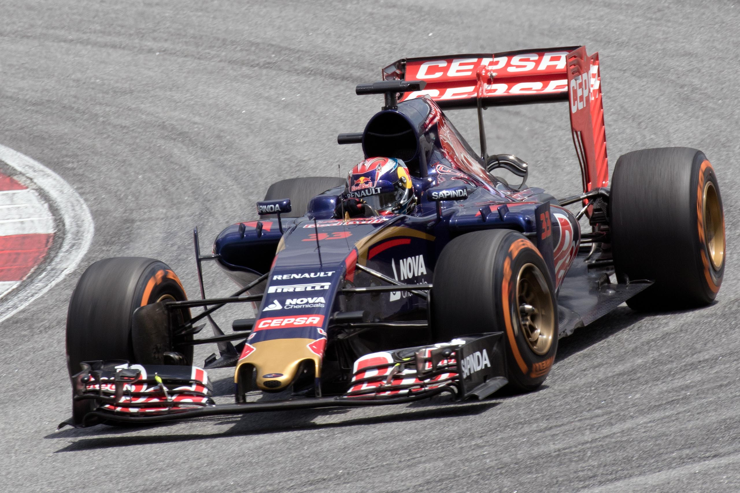 Formula One 2015 Rd.2 Malaysian GP: Max Verstappen (Toro Rosso)